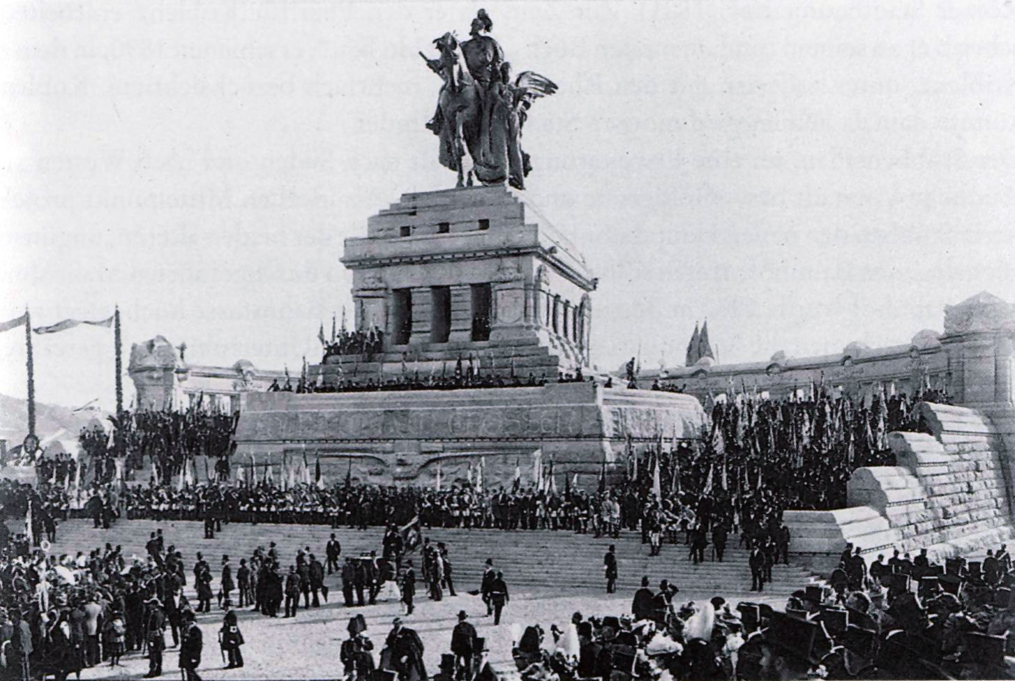 Inauguration of the Kaiser-Wilhelm-I.-Memorial at Deutsches Eck in Koblenz